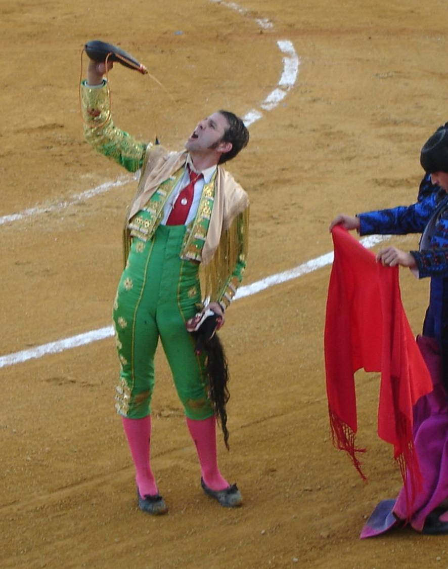 Juan Jose Padilla, bullfighting during Feria at Arcos de la Frontera. Andalusia (Spain)